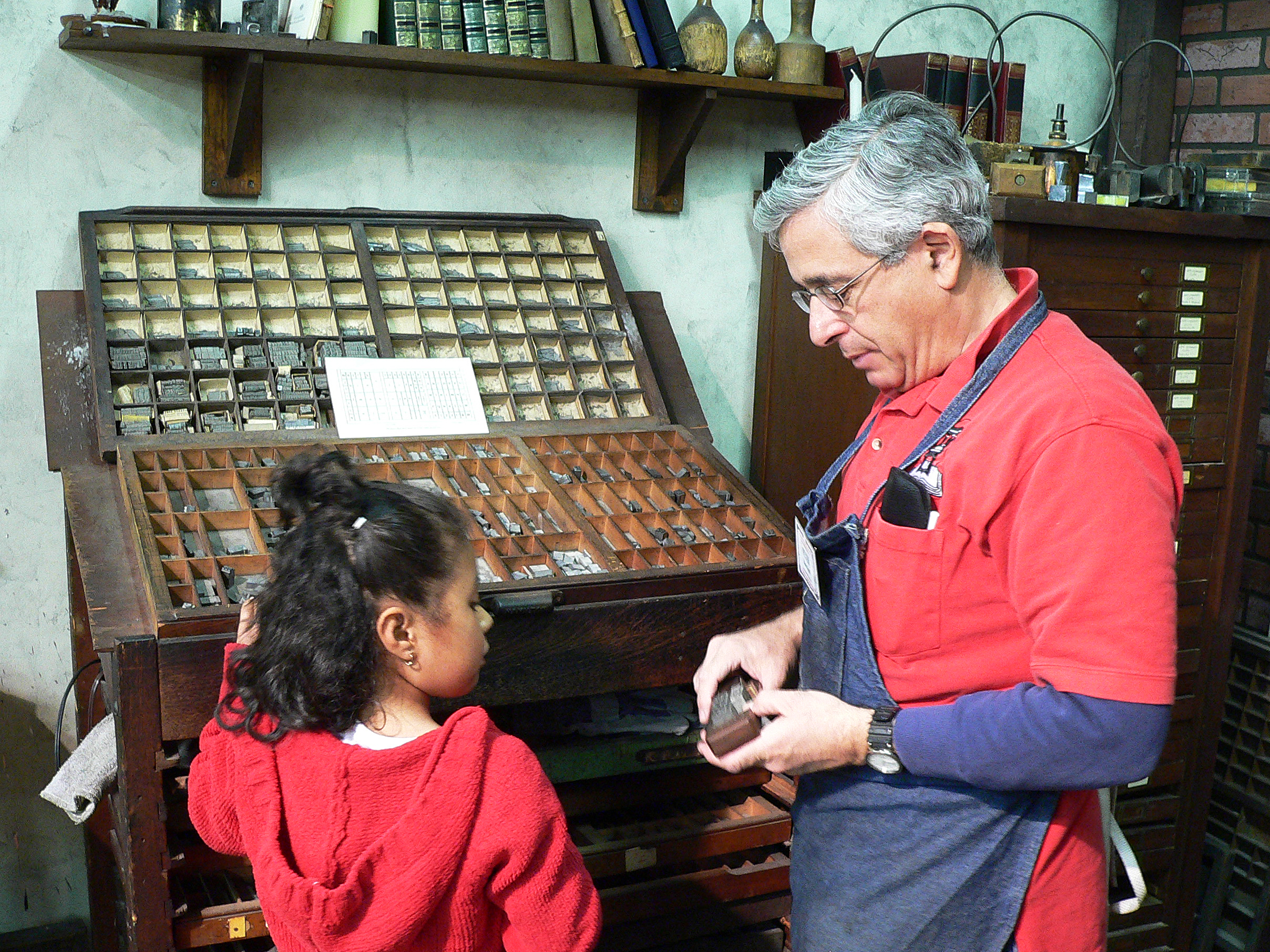 Peter Small demonstrating to a student at the International Printing Museum how Ben Franklin set type by hand.